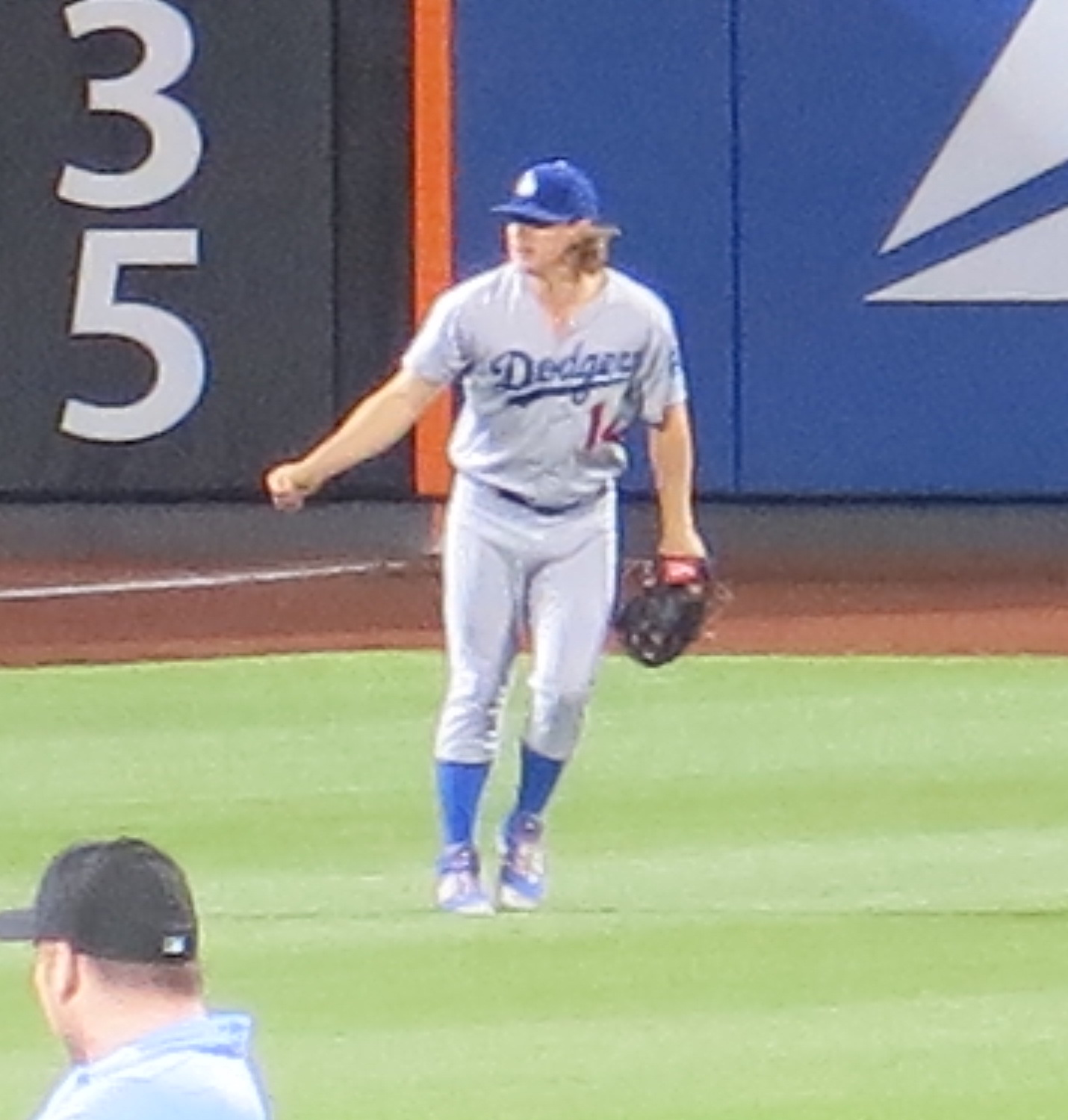 Kiké Hernandez with the Los Angeles Dodgers, May 29, 2016.